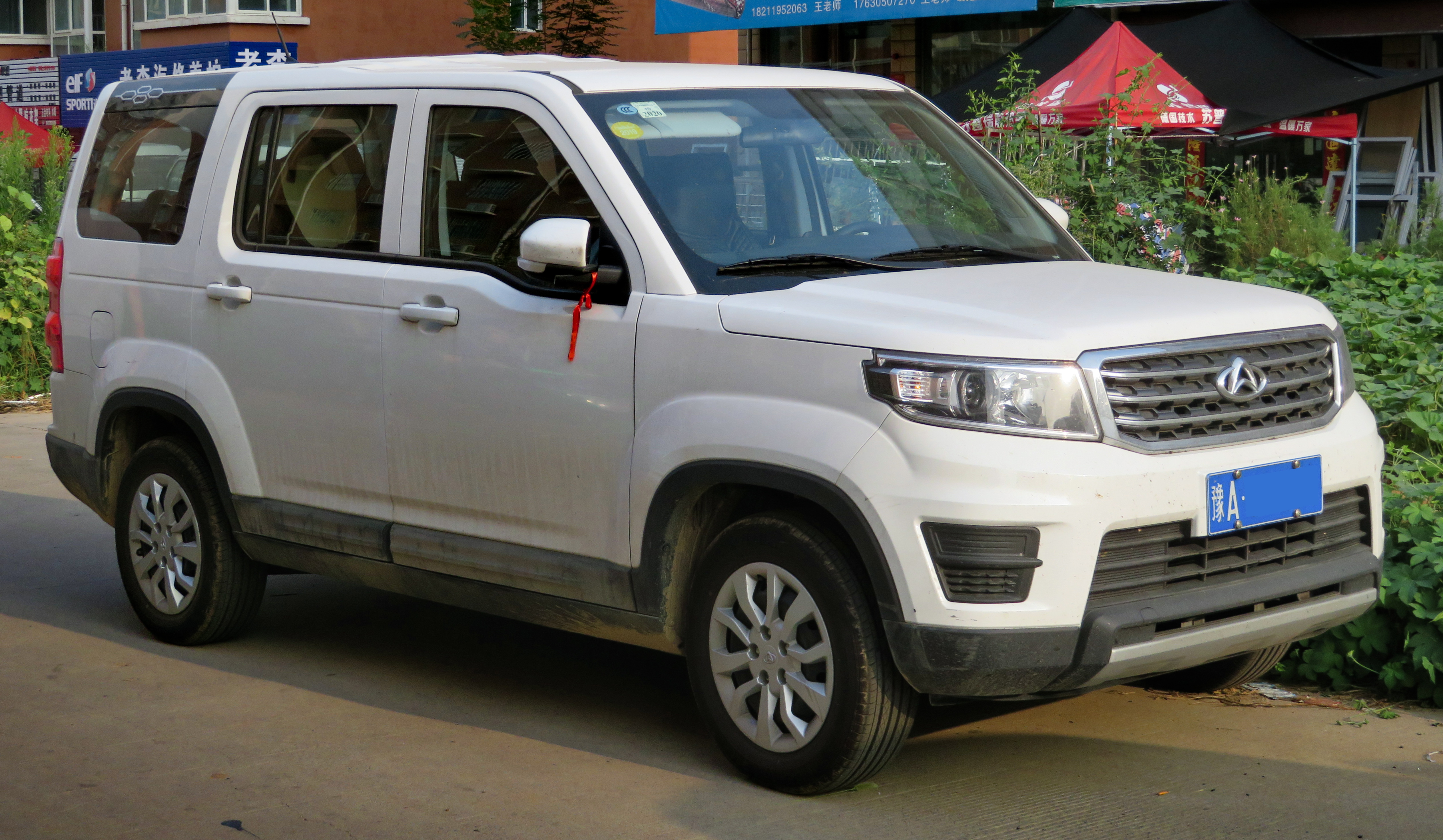 A 2018 Chang'an (Chana) Oushang X70A photographed in Xigong District, Luoyang, Henan province, China